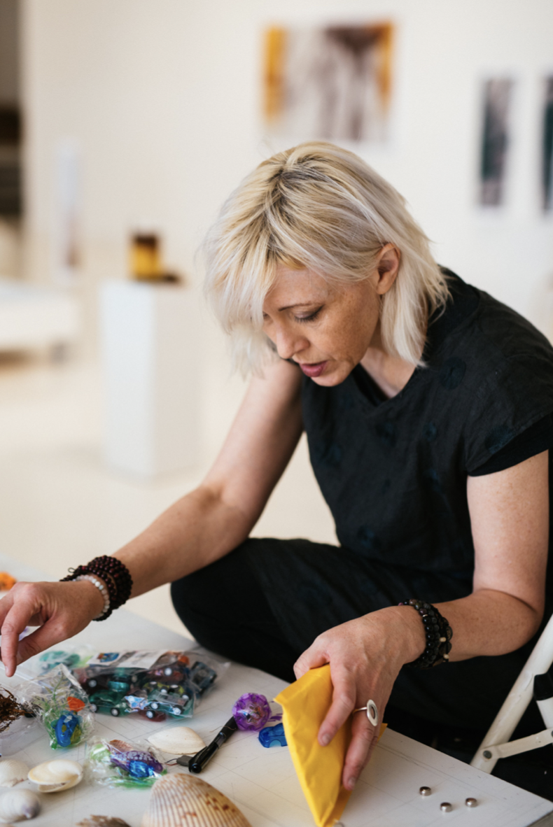 Mary Flanagan working on art